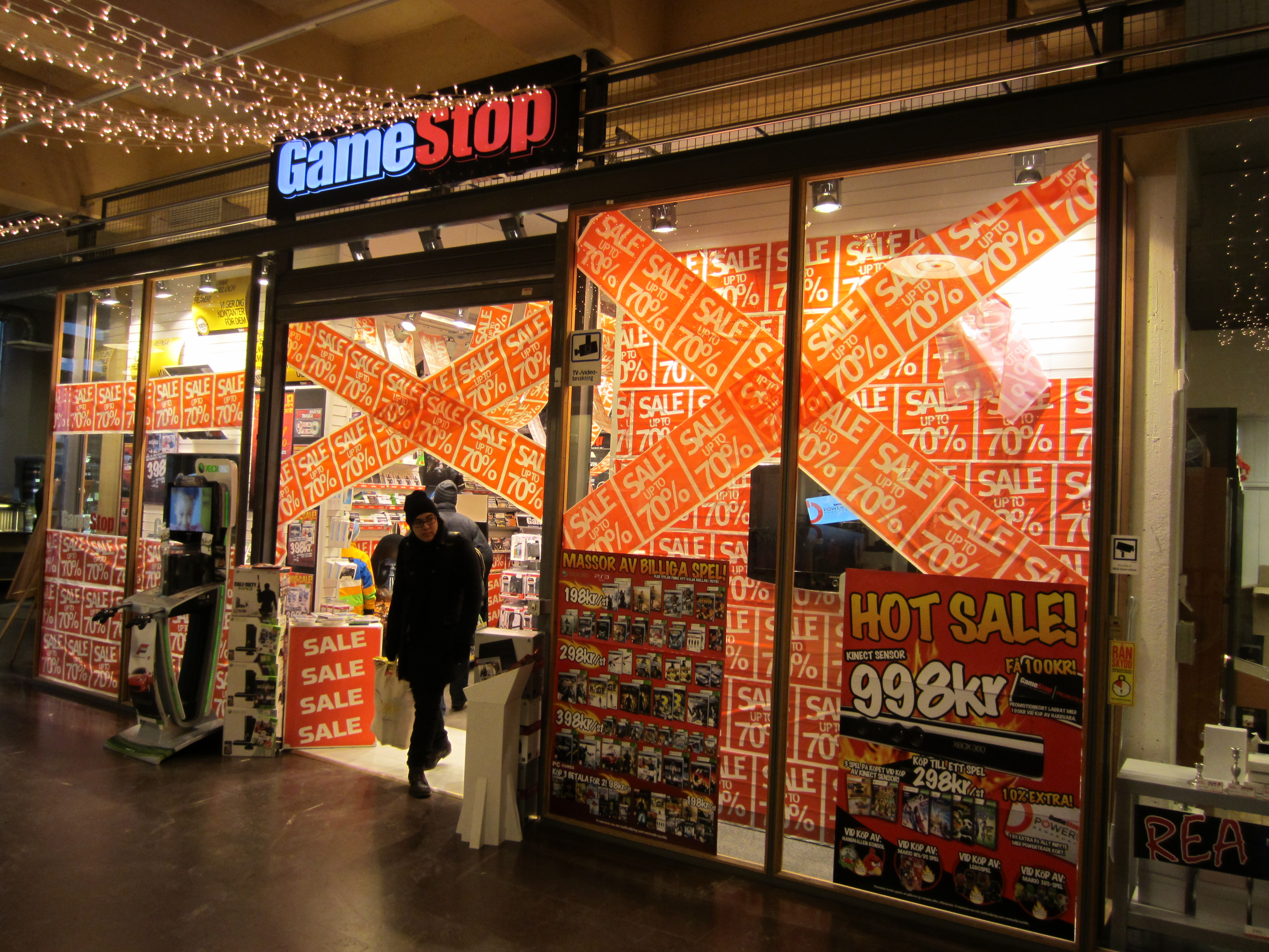 Gaming store "GameStop" in Umeå, Sweden.